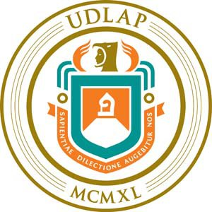 Escudo de la Universidad de las Américas Puebla a partir de Octubre 2009